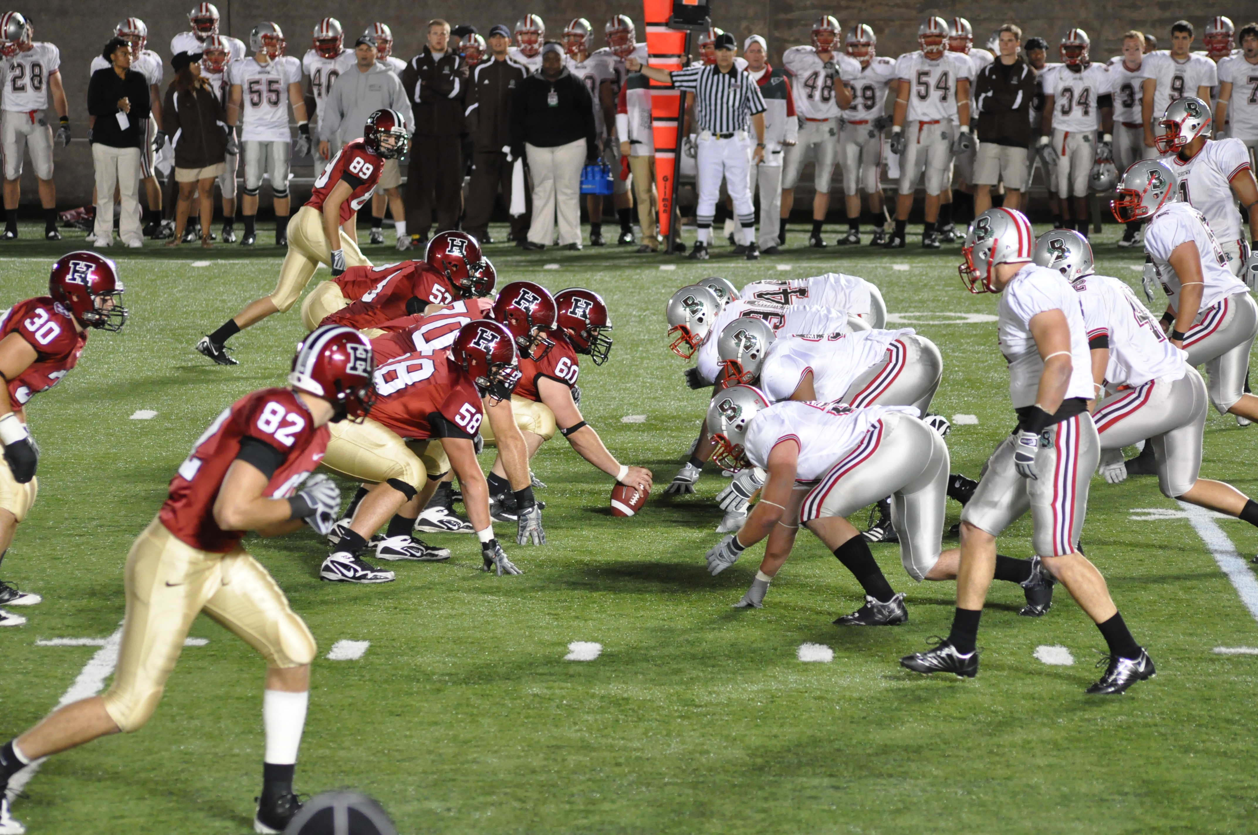 Harvard Crimsons v Brown Bears Harvard University American Football 2009